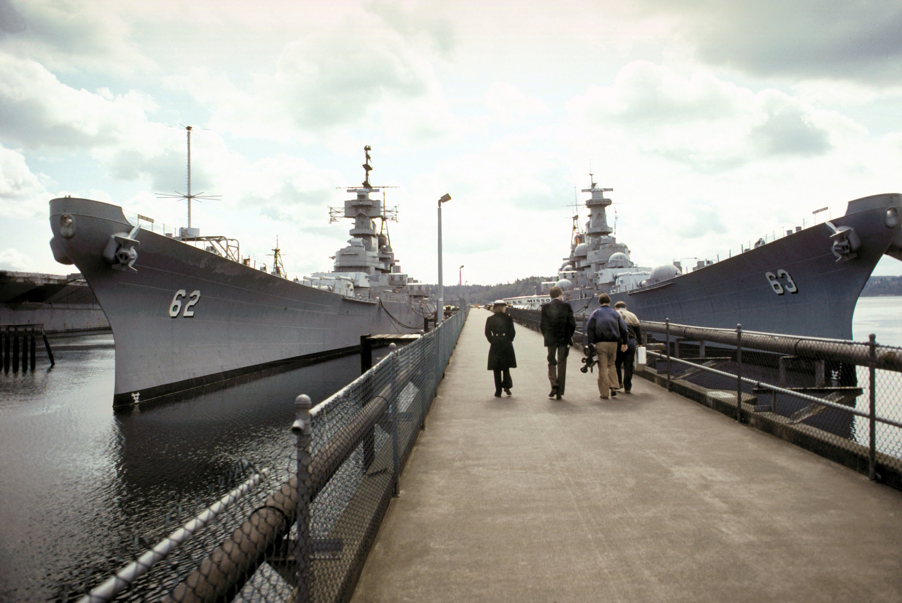 2923 x 1954 pixels - 1,033 KB National Archive# NN33300514 2005-06-30 Released to Public ID: DN-ST-82-01715 Service Depicted: Navy The two battleships NEW JERSEY (BB-62) and MISSOURI (BB-63) docked on either side of a Naval Inactive Ship Maintenance Facility pier. Location: PUGET SOUND NAVAL SHIPYARD, WASHINGTON (WA) UNITED STATES OF AMERICA (USA)